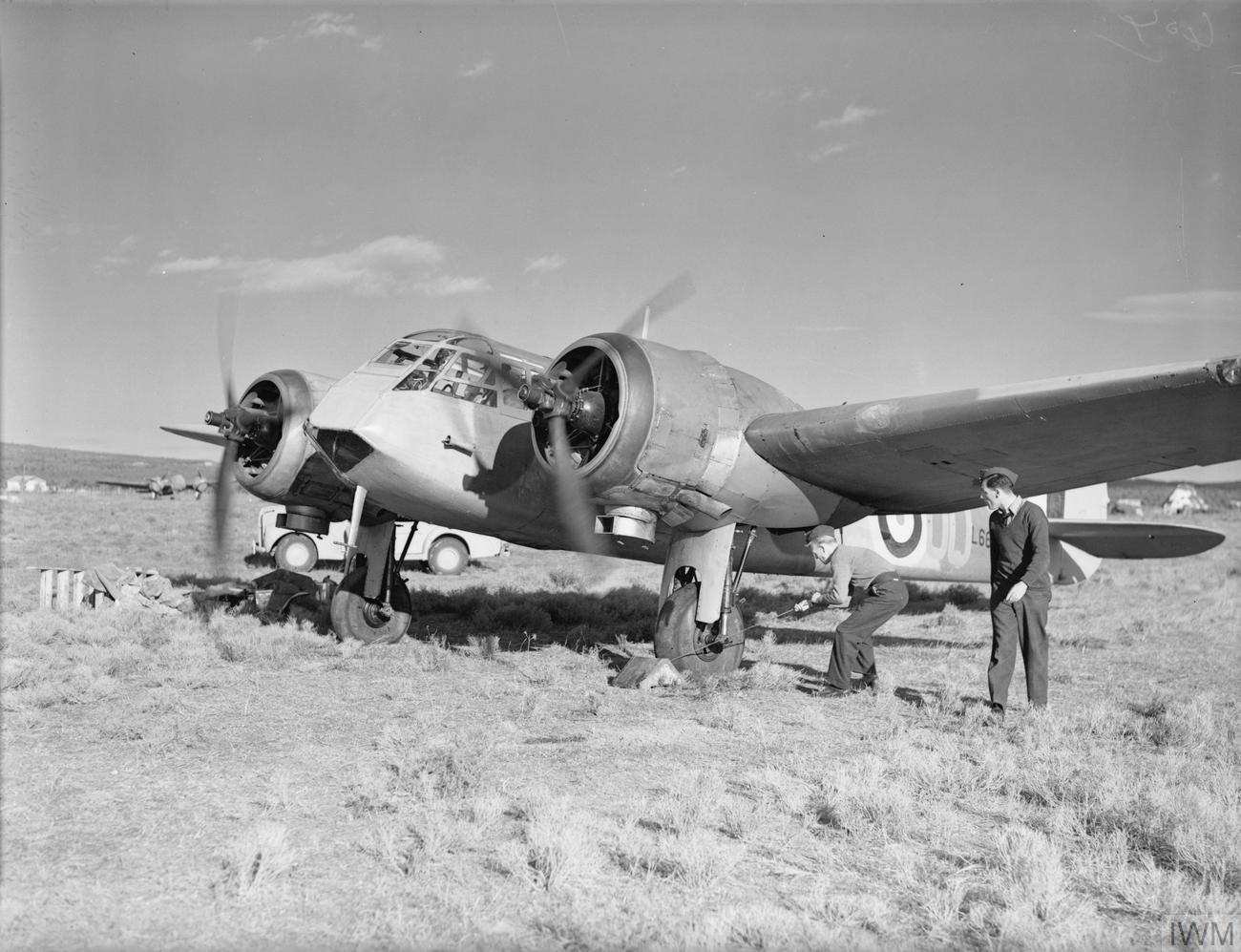 IWM caption : Bristol Blenheim Mark I, L6670 ‘UQ-R’, of No. 211 Squadron RAF preparing to taxy at Menidi/Tatoi, Greece.